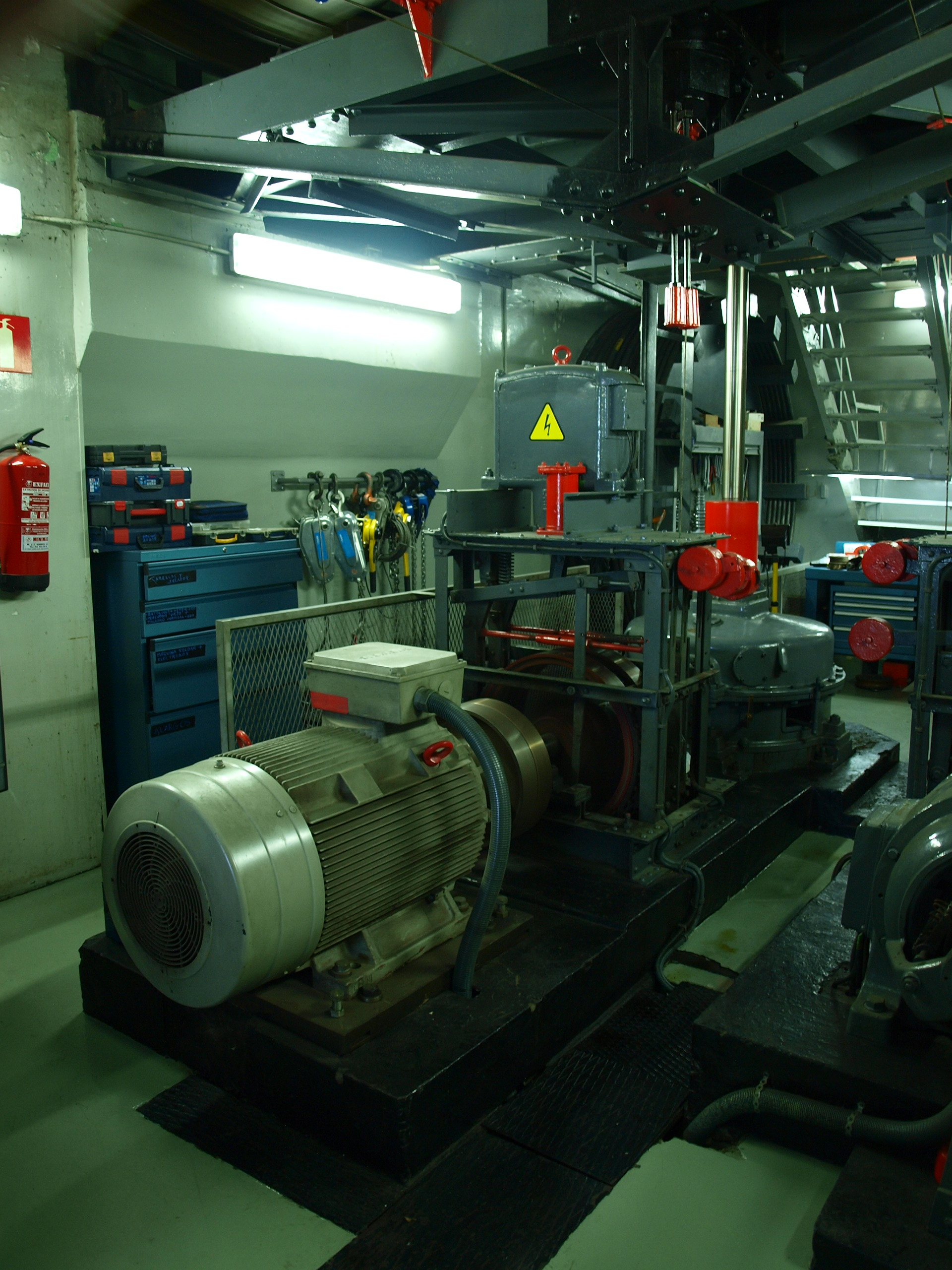 Barcelona - Port Vell Aerial tramway. Top Station (Miramar). New electric Engine - in operation.